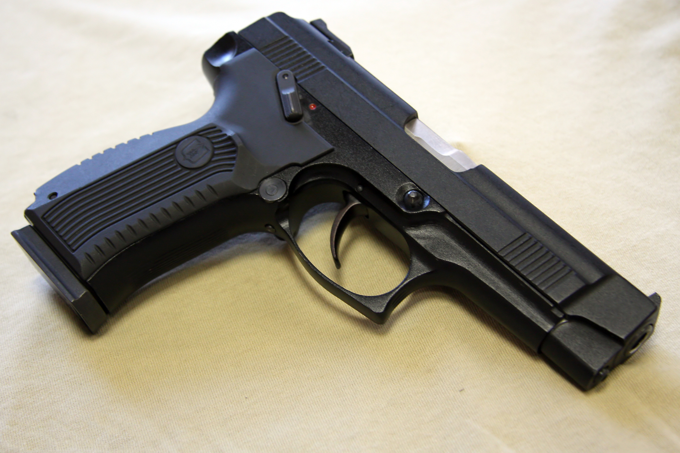 9mm PYa 6P35 Yarygin pistol, also know as MP-443 Grach